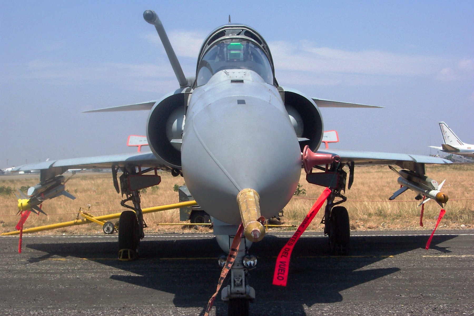 Front view of an Ecuadorian Air Force (FAE) Kfir CE, carrying a Python 3 AAM under the left wing, and a Python 4 AAM under the right wing. Note the nose strakes, the refuelling probe, the redesigned "glass" cockpit, and the canard foreplanes. Picture taken in 2004.